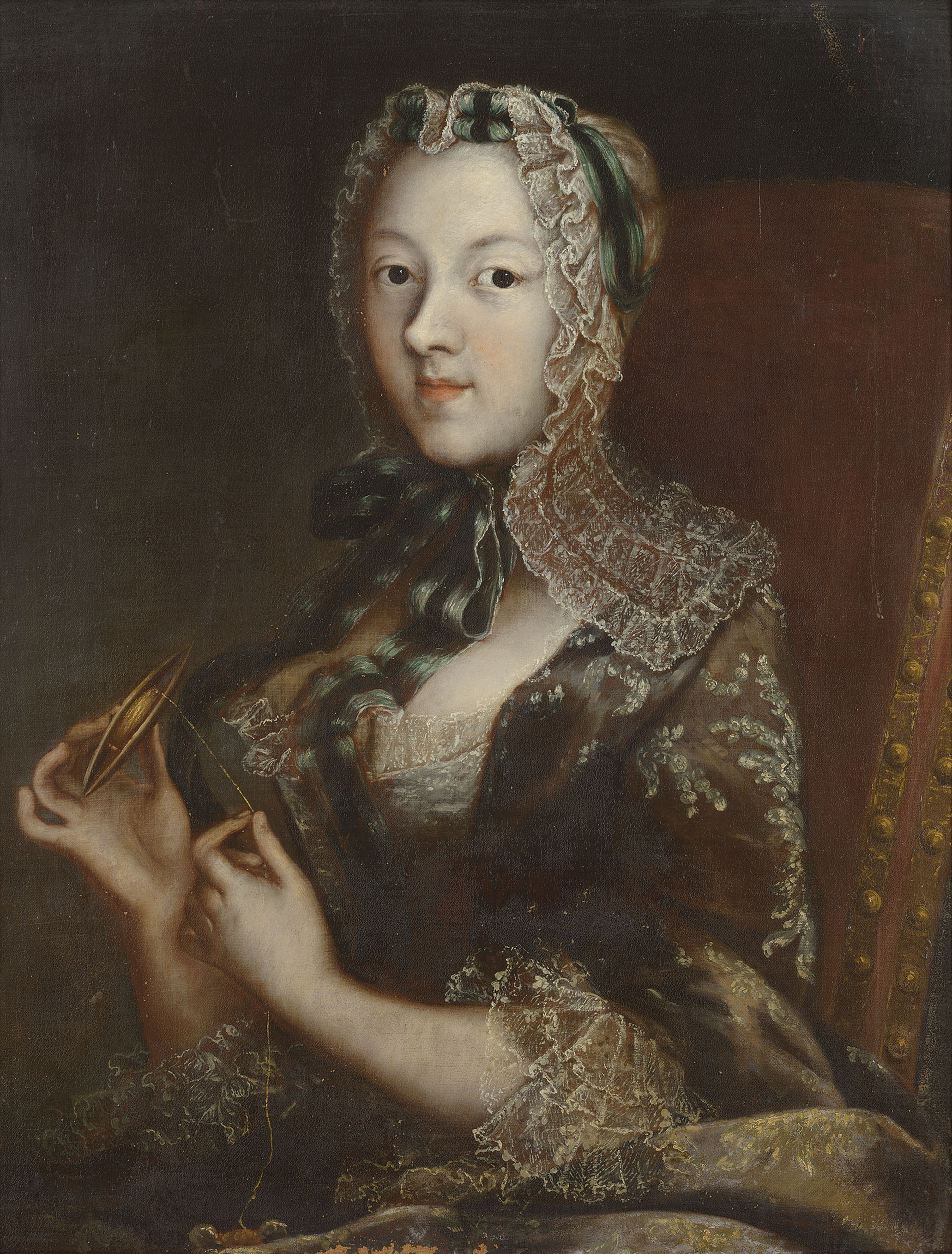 Portrait of Christina Enrichetta d'Assia (1717-1778), half-length, seated, in a brown embroidered dress and lace bonnet, holding a spindle. object history=Christie's, sale 17486, The Royal House of Savoy, London, 15 October 2019, lot 112